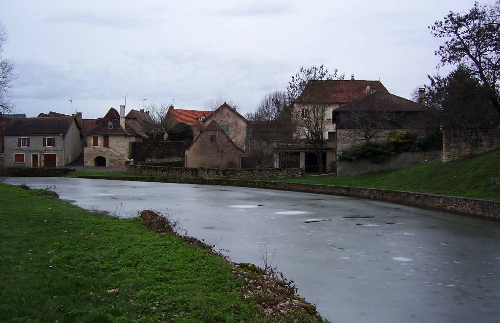 Dam on the stream of town Assier in France.